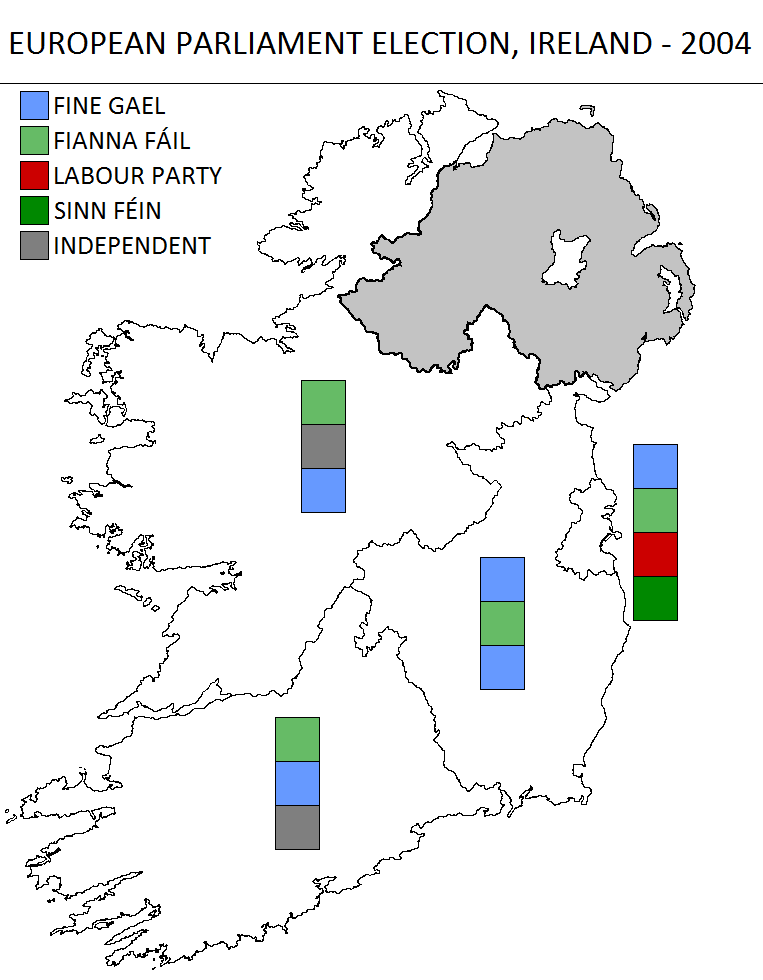 Mapped results of the 2004 European Parliament election in the Republic of Ireland.